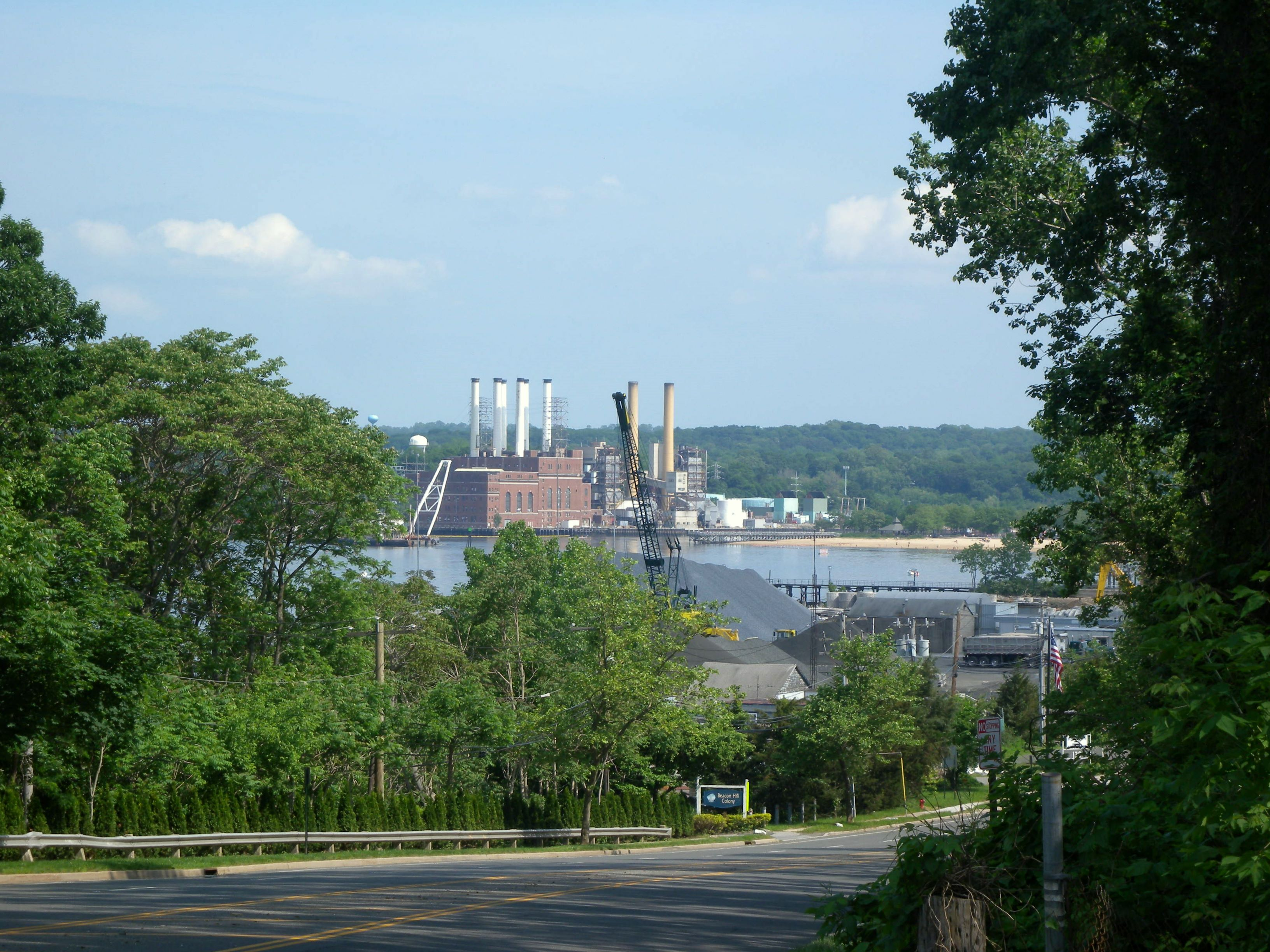 Looking southeast into Hempstead Harbor from the hill on southern West Shore Road on a mostly sunny early afternoon.